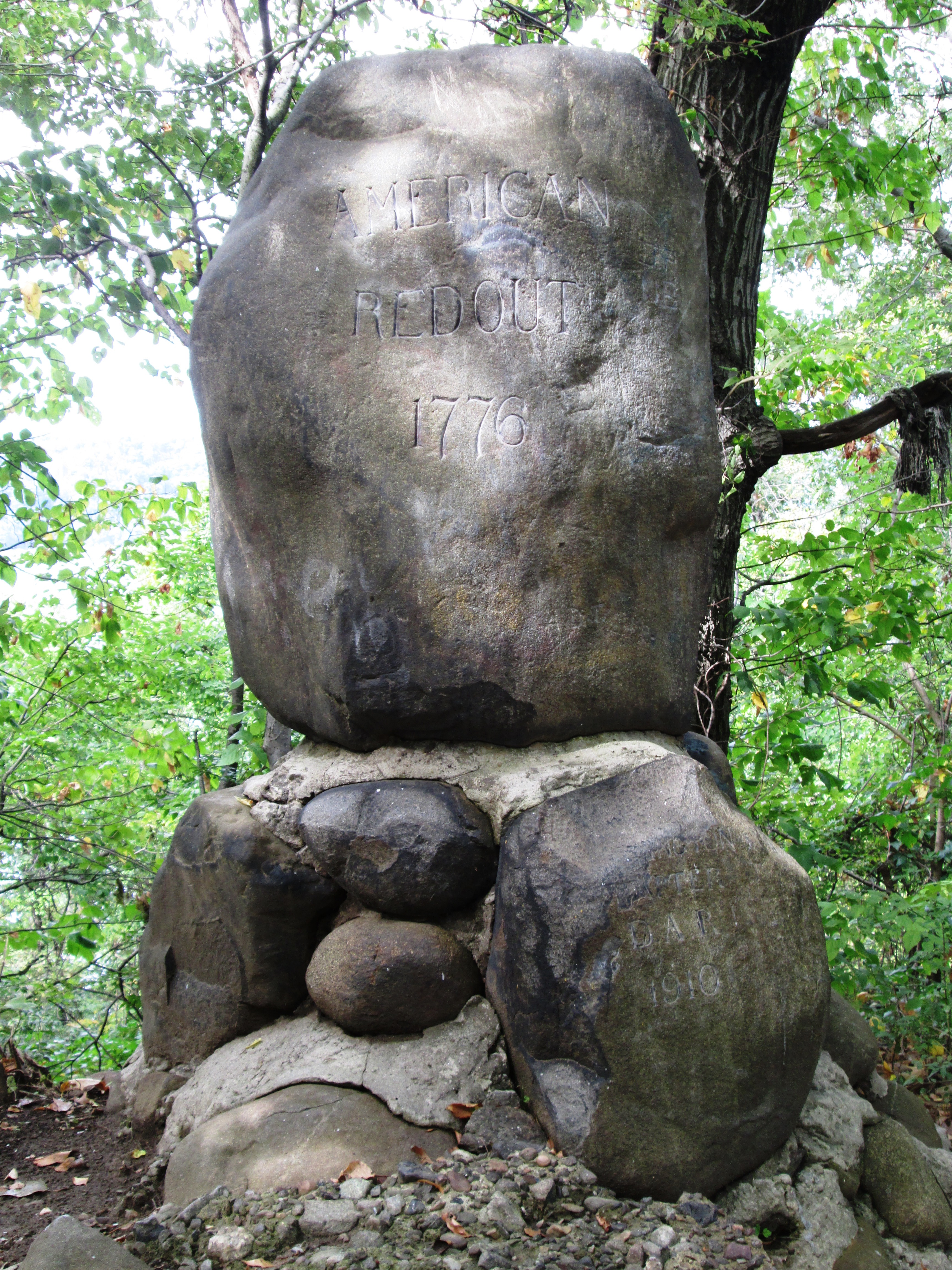 The Daughters of the American Revolution (D.A.R) monument to the American Redout [sic] after the Battle of Fort Washington, the Continental Army's last position before crossing the Hudson River near Jeffrey's Hook to Fort Lee, New Jersey. The marker is located almost underneath the approach to the George Washington Bridge, in Fort Washington Park, Manhattan, New York City. It was erected in 1910 and part of it is marred by graffiti. As of 2016, a Boy Scout, as his project to become an Eagle Scout, spearheaded the project to lay a path to the marker, with the support of the Riverside Park Conservancy and assistance from the New York City Parks Department. Before that, the marker was difficult to find and access through the thick undergrowth. The Parks Department labelled the pathway to the marker with a sign.